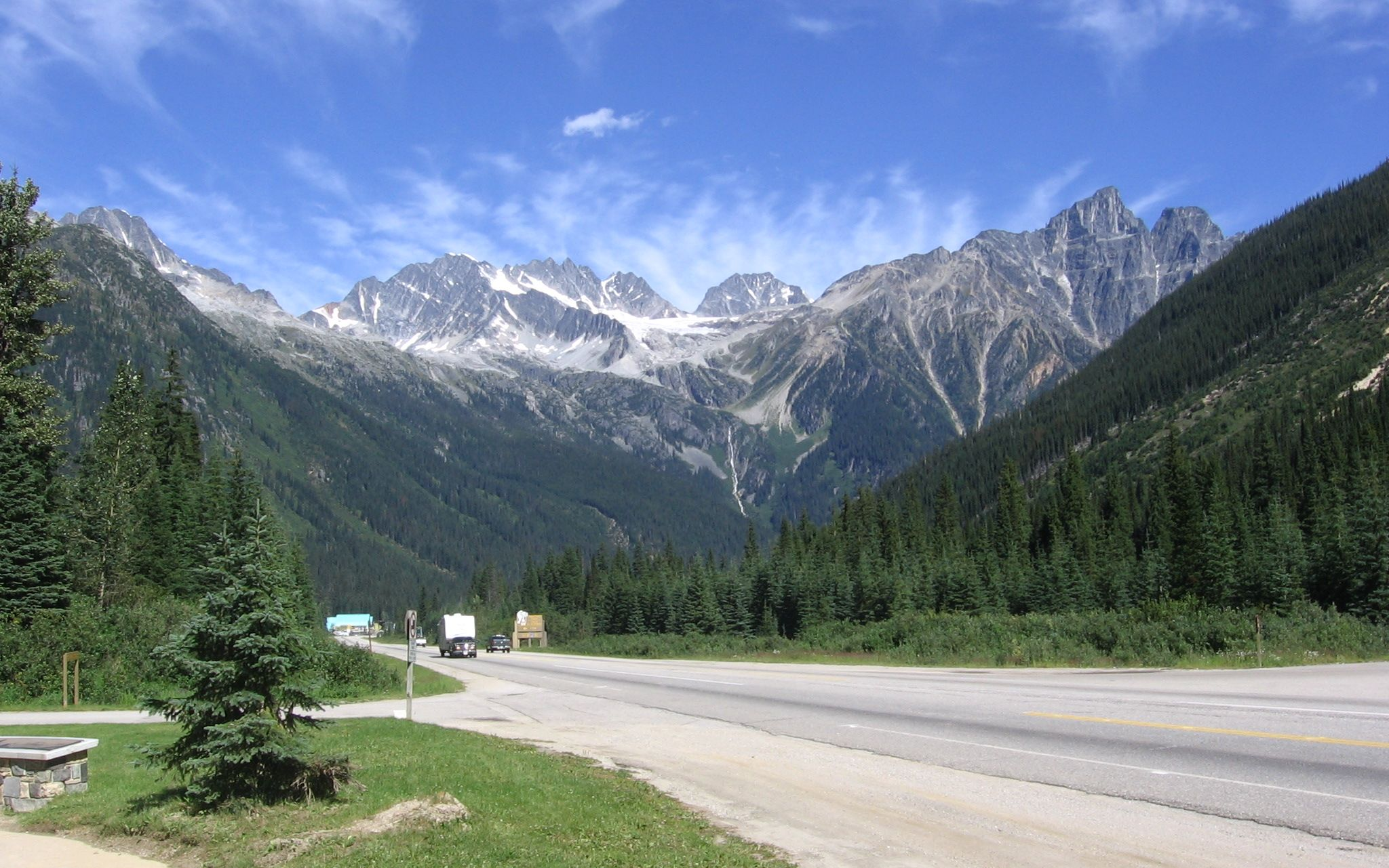 View of the Hermit Range from Rogers Pass